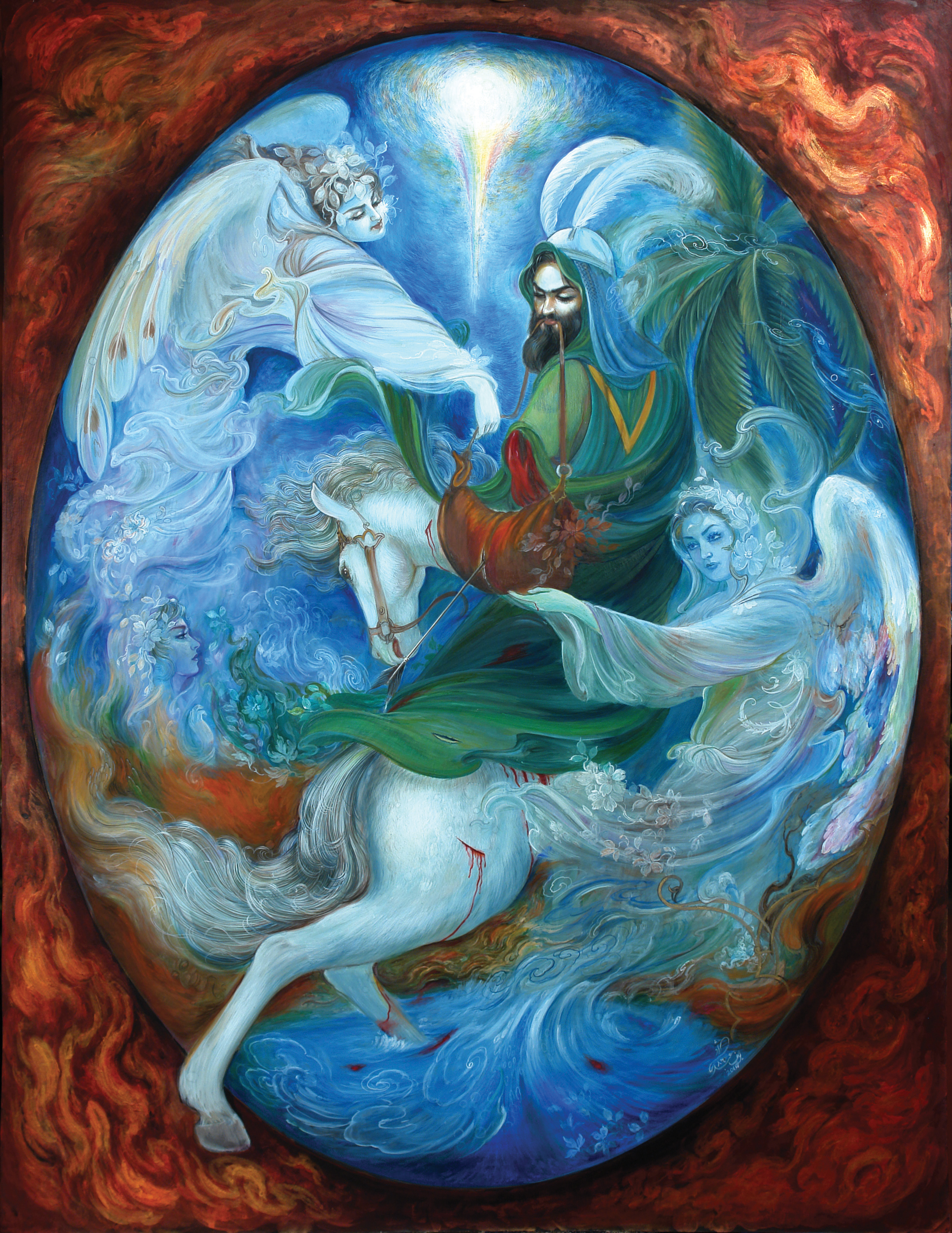 Abbas ibn Ali ibn Abitalib befor his death